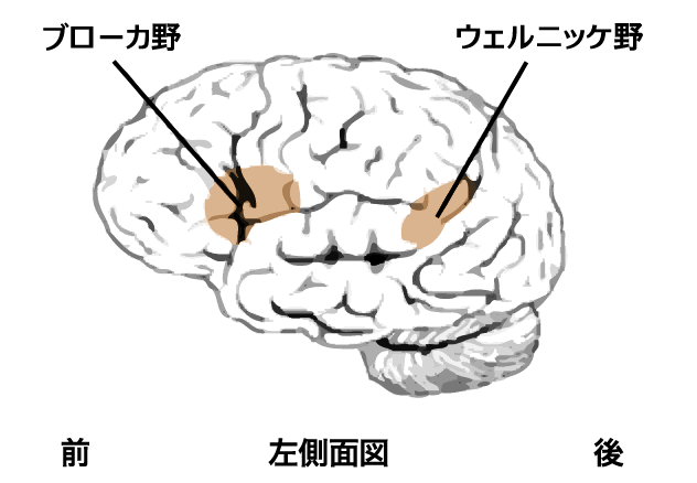 Drawing of human brain with Broca's and Wernicke area highlighted , Japanese.